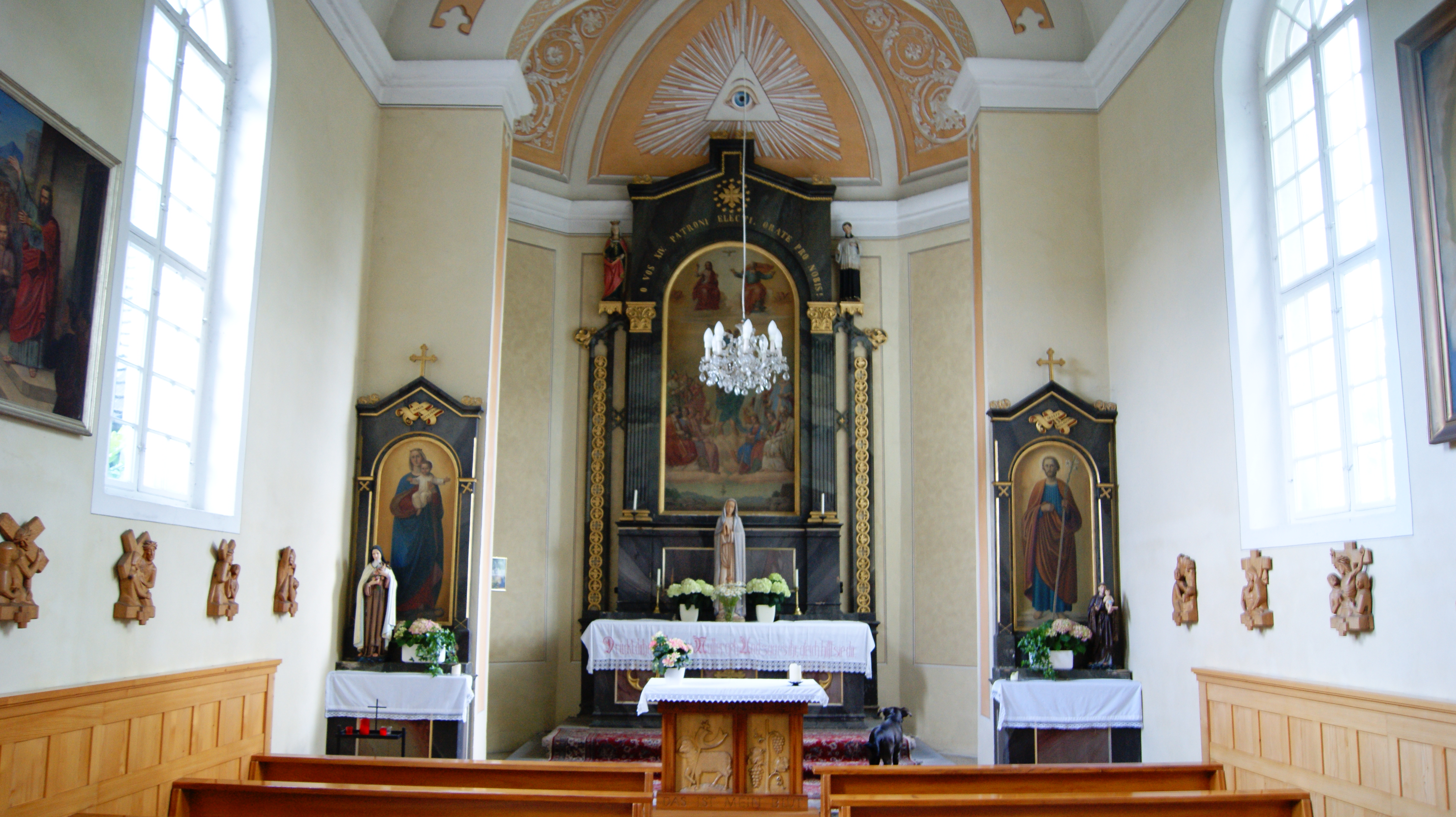 Chapel of the Holy Trinity and 14 helpers (Haselstauden) Kehlerstraße no 75a (Kehlen) in Dornbirn, Vorarlberg, Austria. View to the Altar.